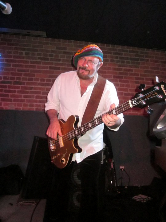 Toby Gray performing with It's A Beautiful Day at Georges Night Club